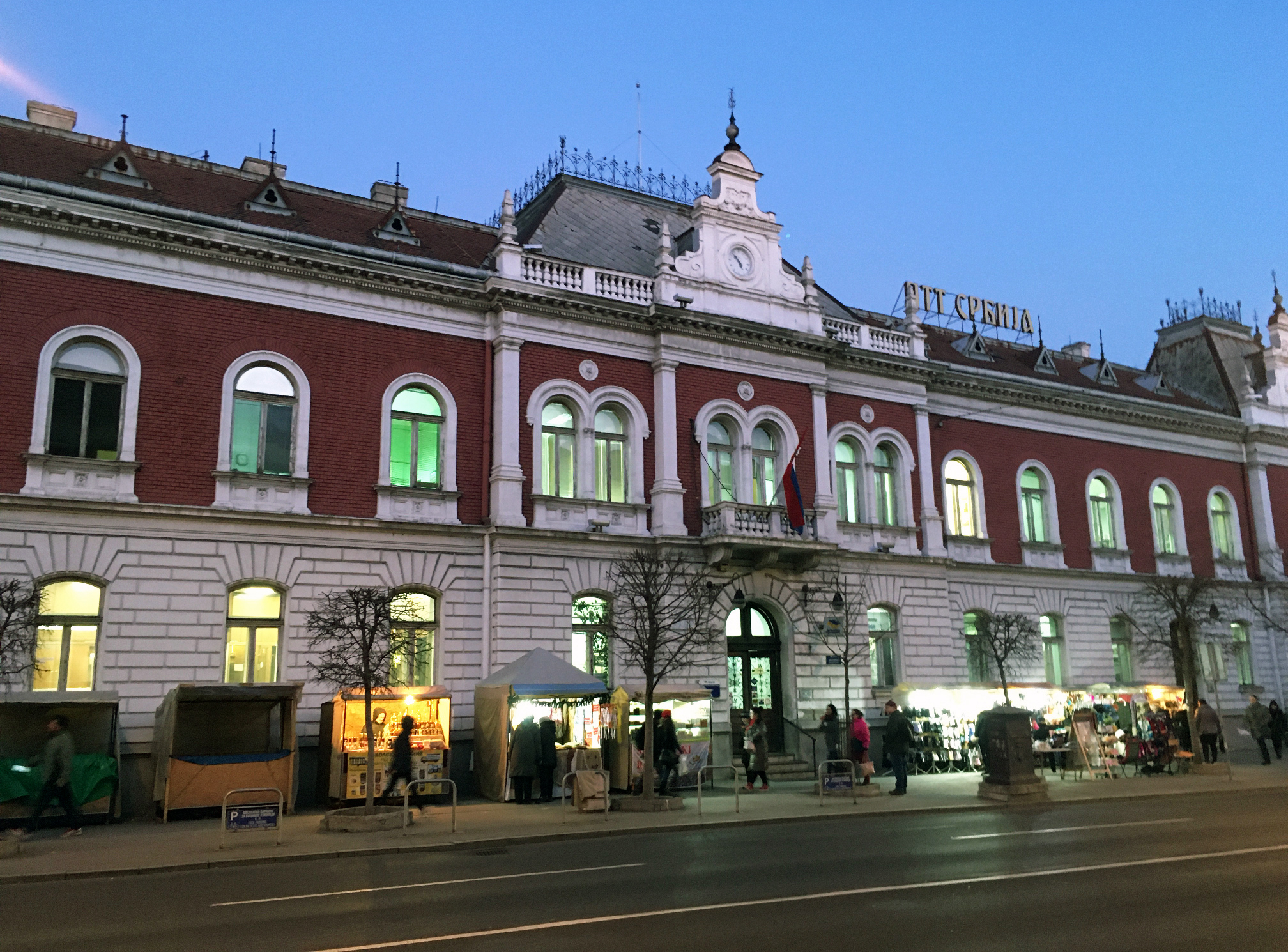 The Postall office in Zemun, Serbia